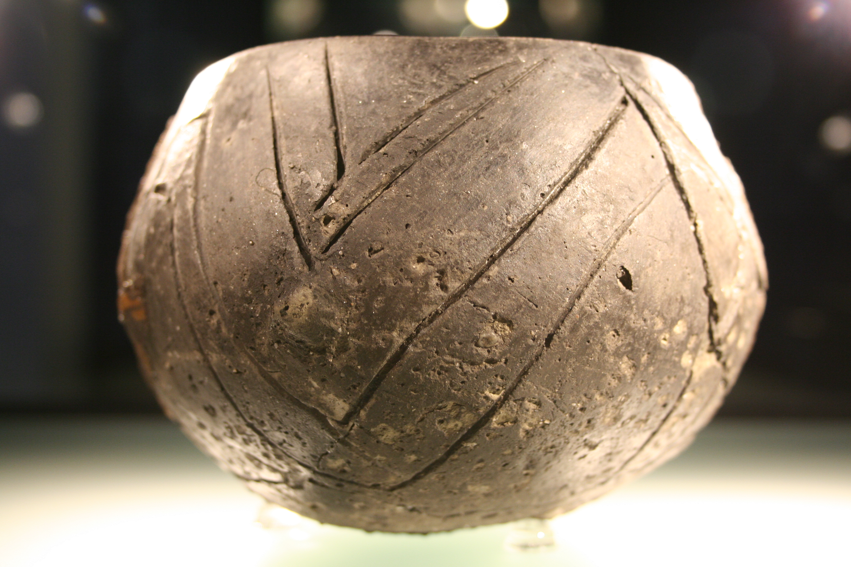 Broken pot (kumpf) patched with pitch and bark, found inside a Linear Pottery culture well at Scheuditz-Altscherbitz